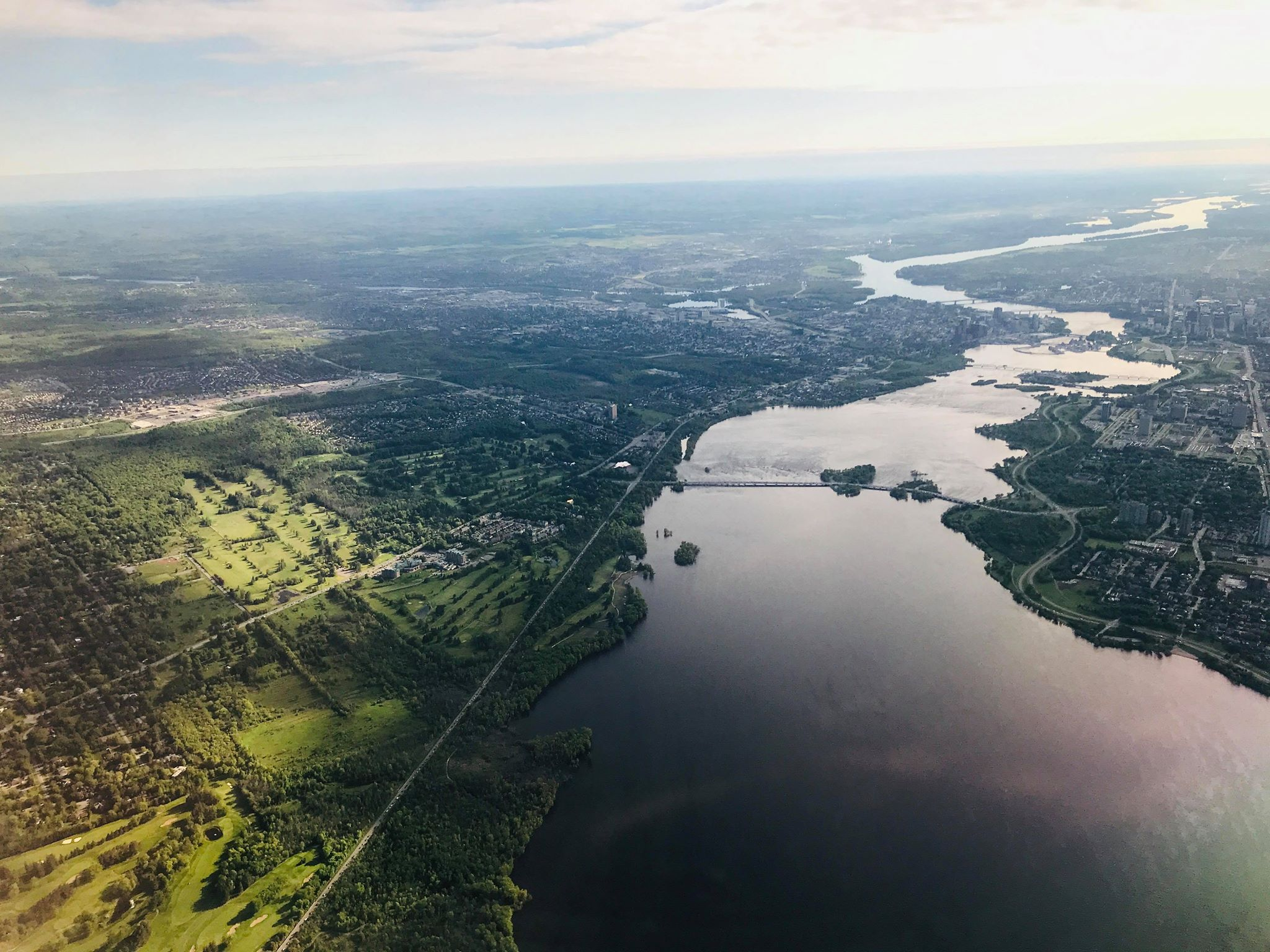 Just landed in Edmonton. At 1pm MT / 3pm ET I’ll be laying out My Vision for Canada: A Closer and Freeer Federation. Tune in on my Facebook page!